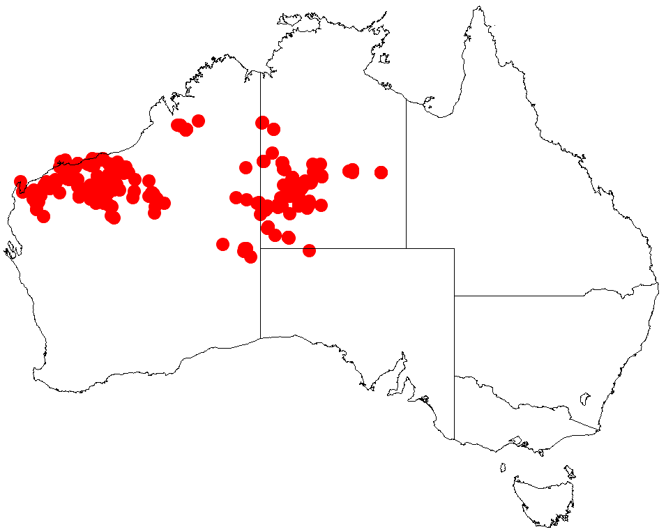 Acacia inaequilatera occurrence data from Australasian Virtual Herbarium downloaded from on 8 December 2018